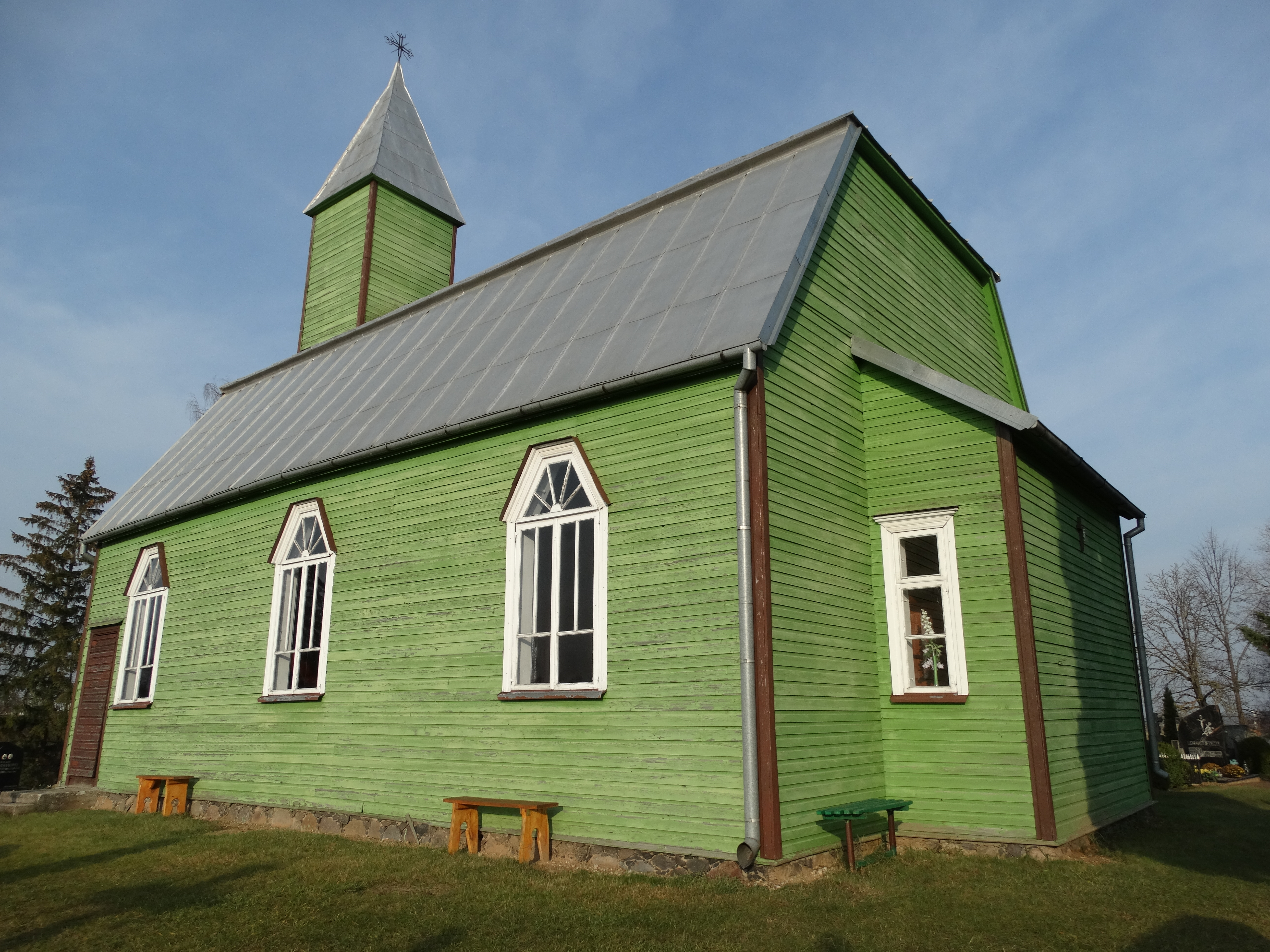 Chapel in Lamokėliai, Biržai district, Lithuania